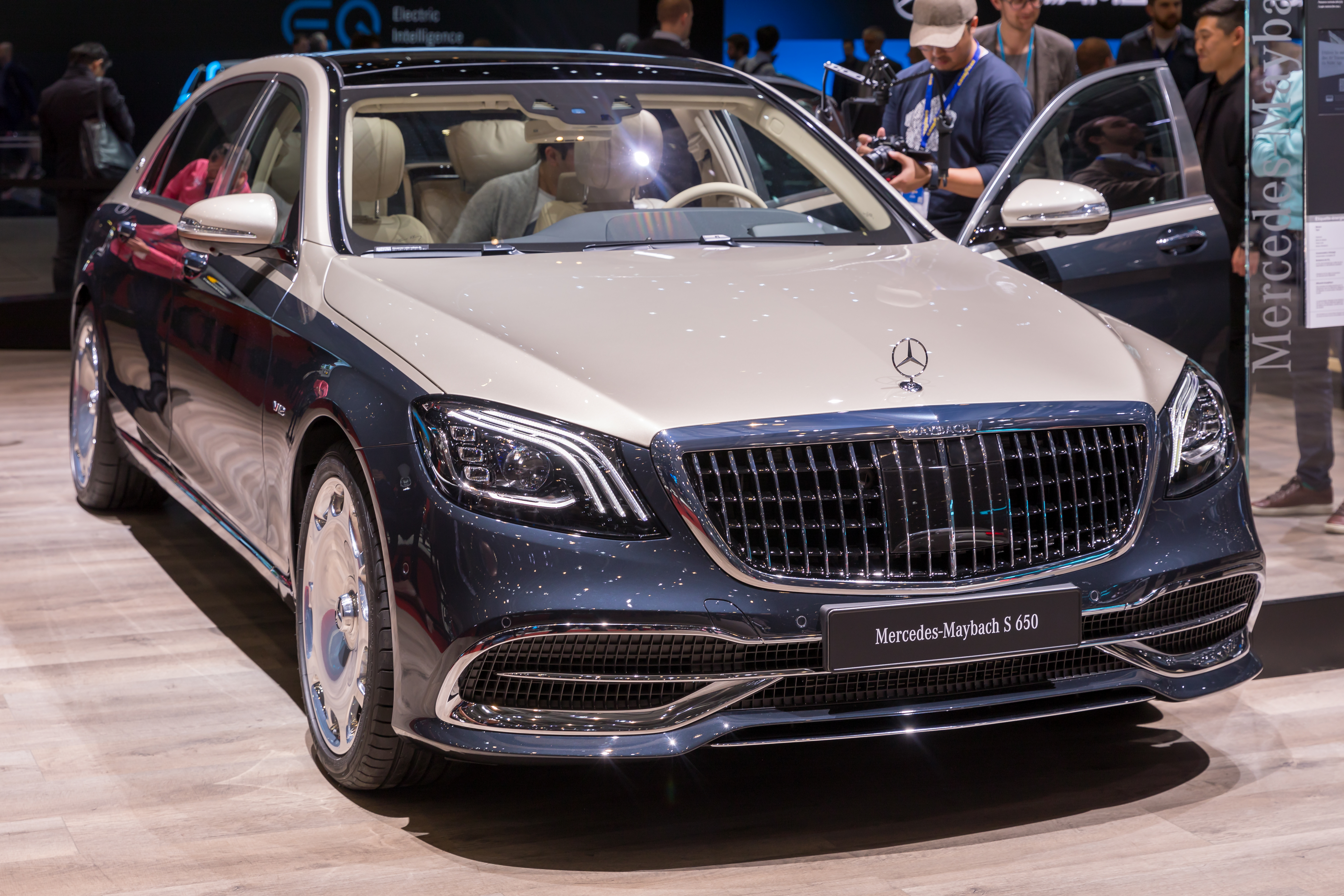 Geneva International Motor Show 2018